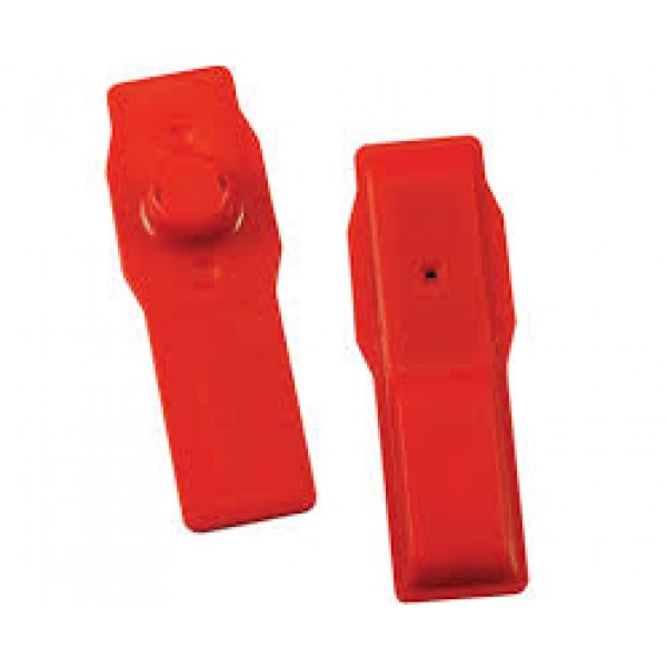 a3tag